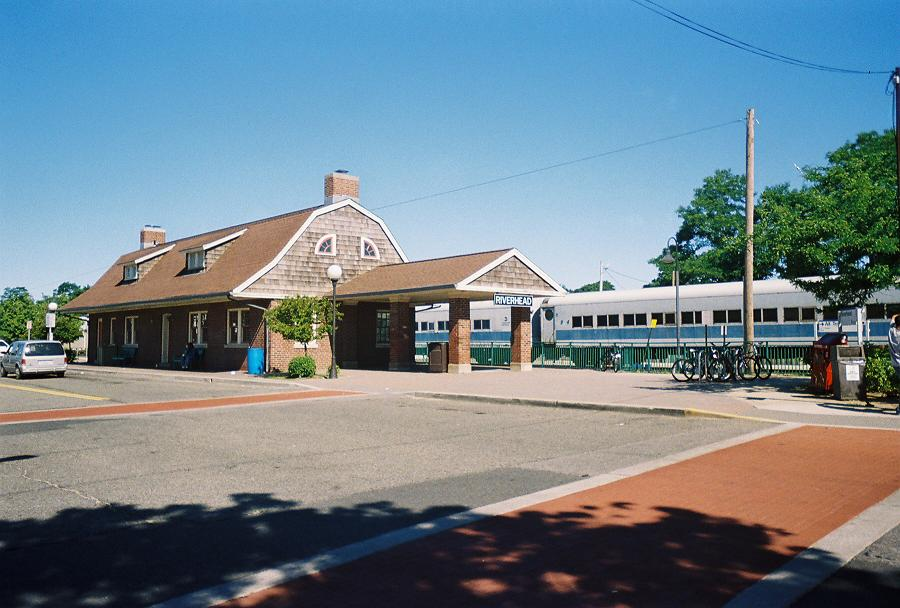 Photograph of Long Island Rail Road's Riverhead Station taken by me on July 1, 2007.